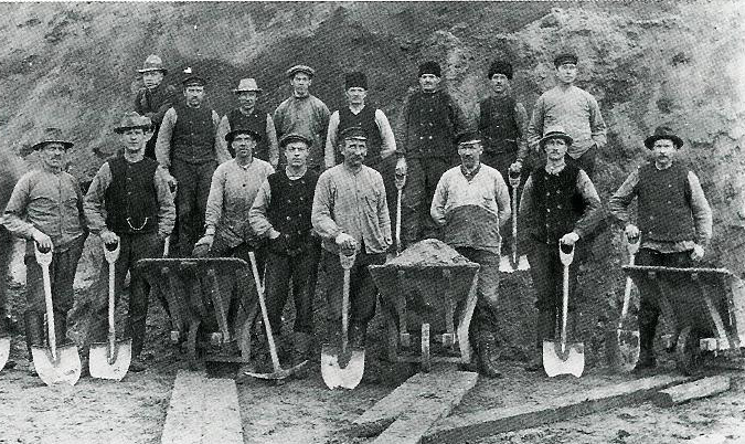 Scanned from the archive of Hakarp.